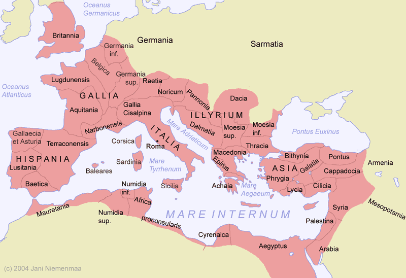 Roman empire, map in Finnish.